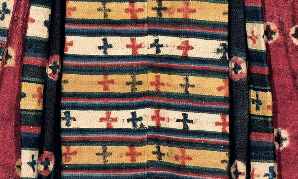 HIMALAYAS Sul-ma, woman’s woollen dress (detail), Ladakh, late 19th/early 20th century. Bill Liske Collection. Thigma tie-dye designs are found in Tibet and the Indian trans-Himalayan regions of Ladakh, Zanskar, Spiti and Himachal Pradesh. Known as a sul-ma, this style of garment, made from strips of snambu cloth patterned with thigma tie-dyed circles and cruciform motifs, was originally exclusive to the Ladakhi royal family, becoming more generally worn late in the 19th century.